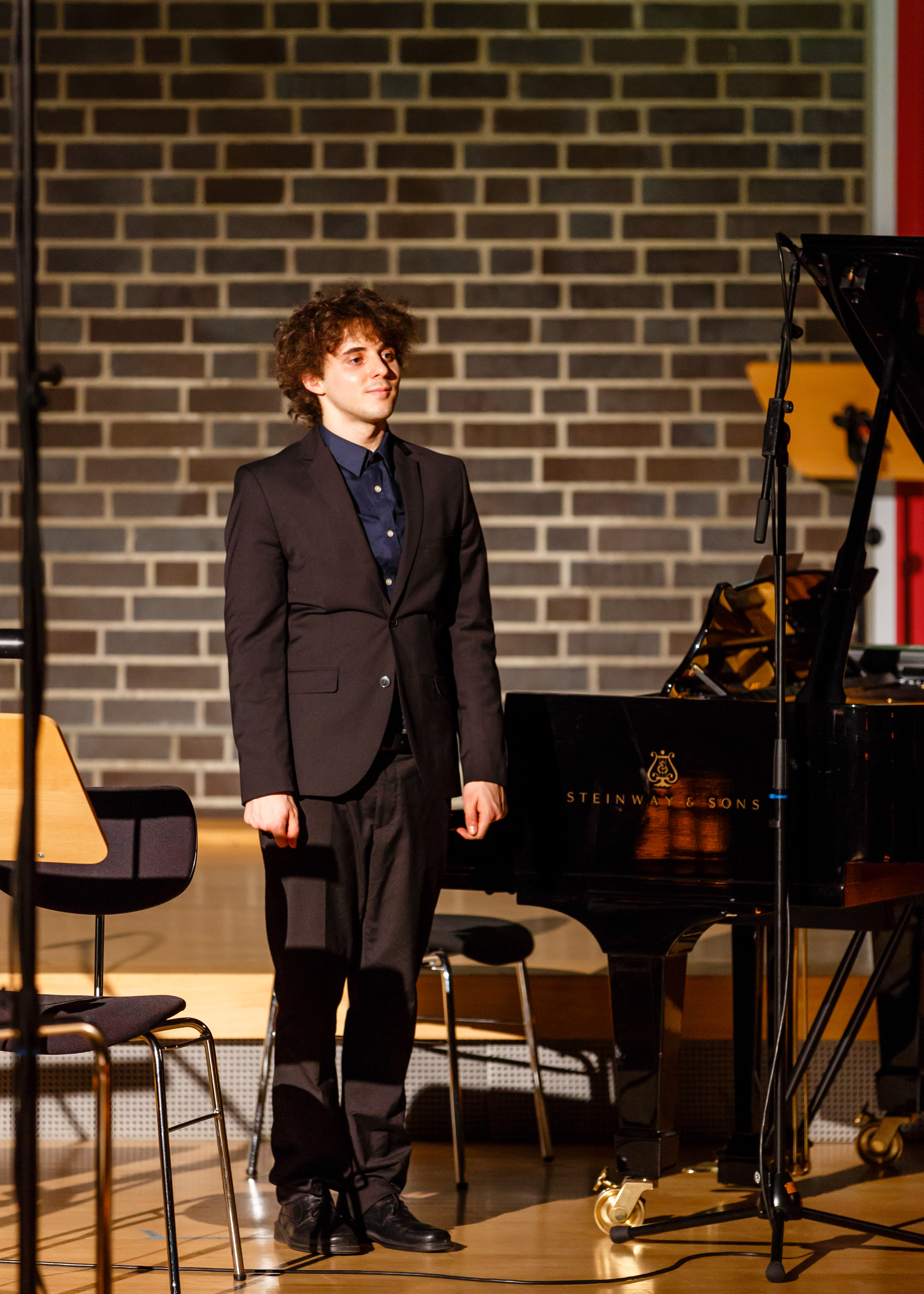 Düsseldorf, Germany: Ensemble Tempus Loquendí in Partikasaal of Robert-Schumann-Hochschule Düsseldorf after the founding concert of the ensemble. Julio G. Vico (Piano)